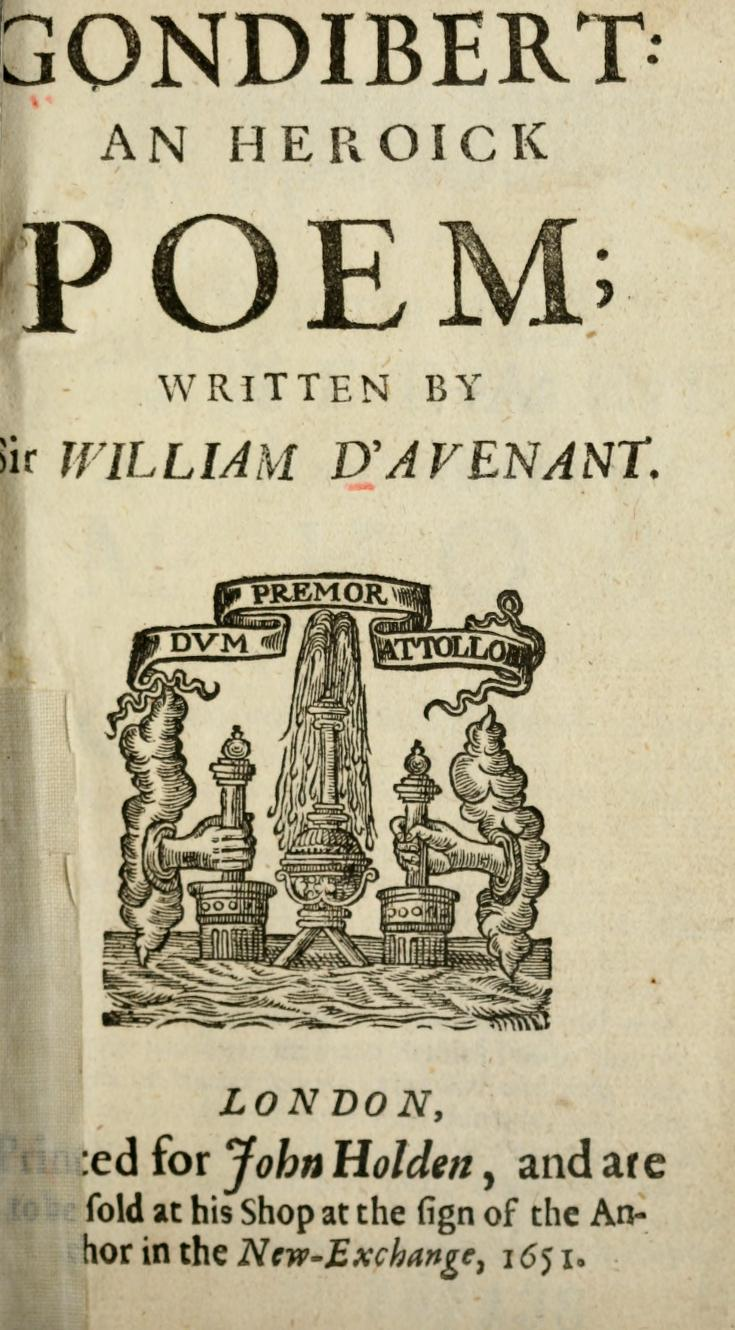 Title page of 1651 edition of poem Gondibert An Heroick Poem by William Davenant